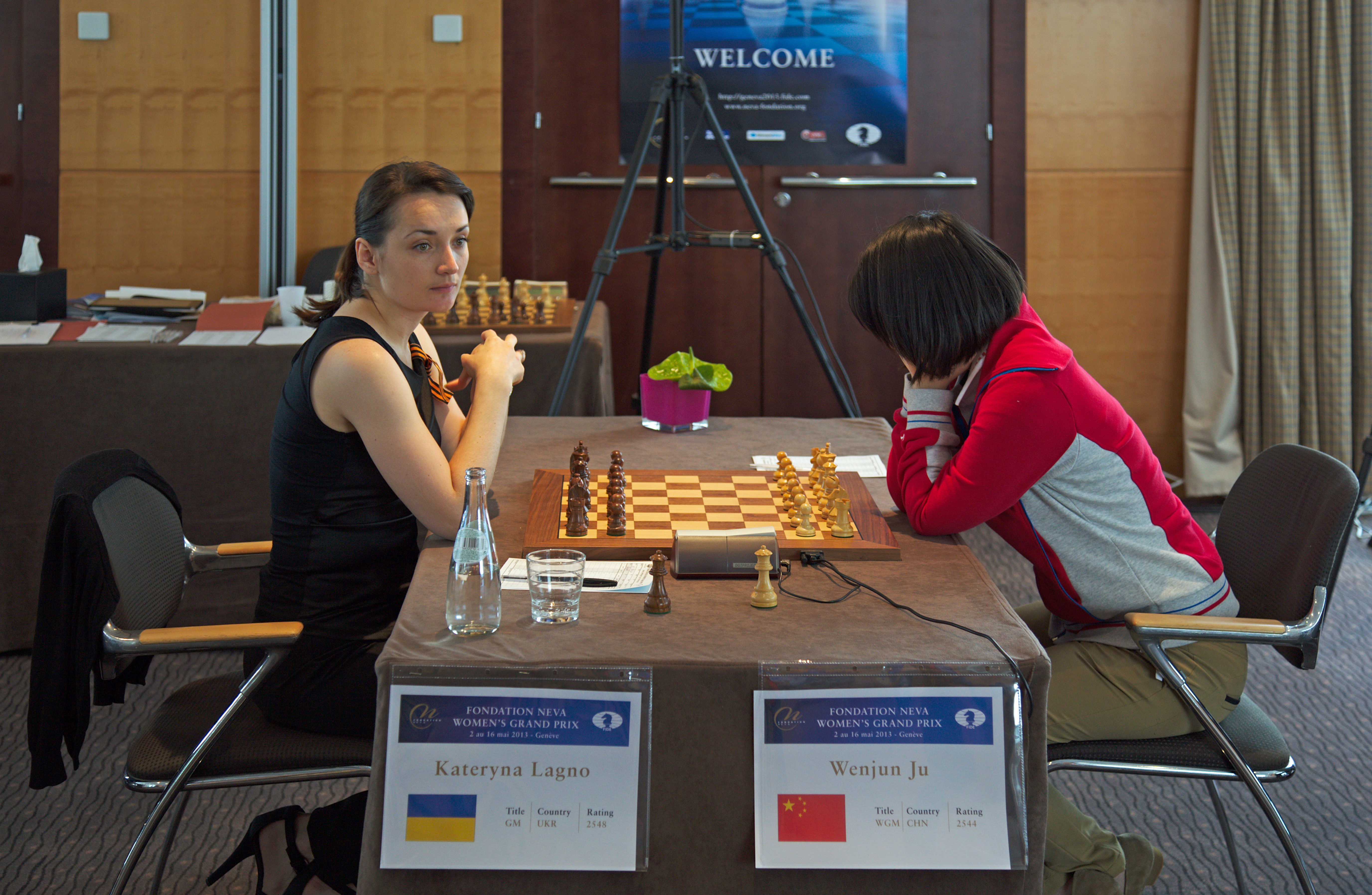 Fondation Neva Women's Grand Prix Geneva 09-05-2013 Fondation Neva Women's Grand Prix Geneva 09-05-2013 - Kateryna Lagno vs Wenjun Ju